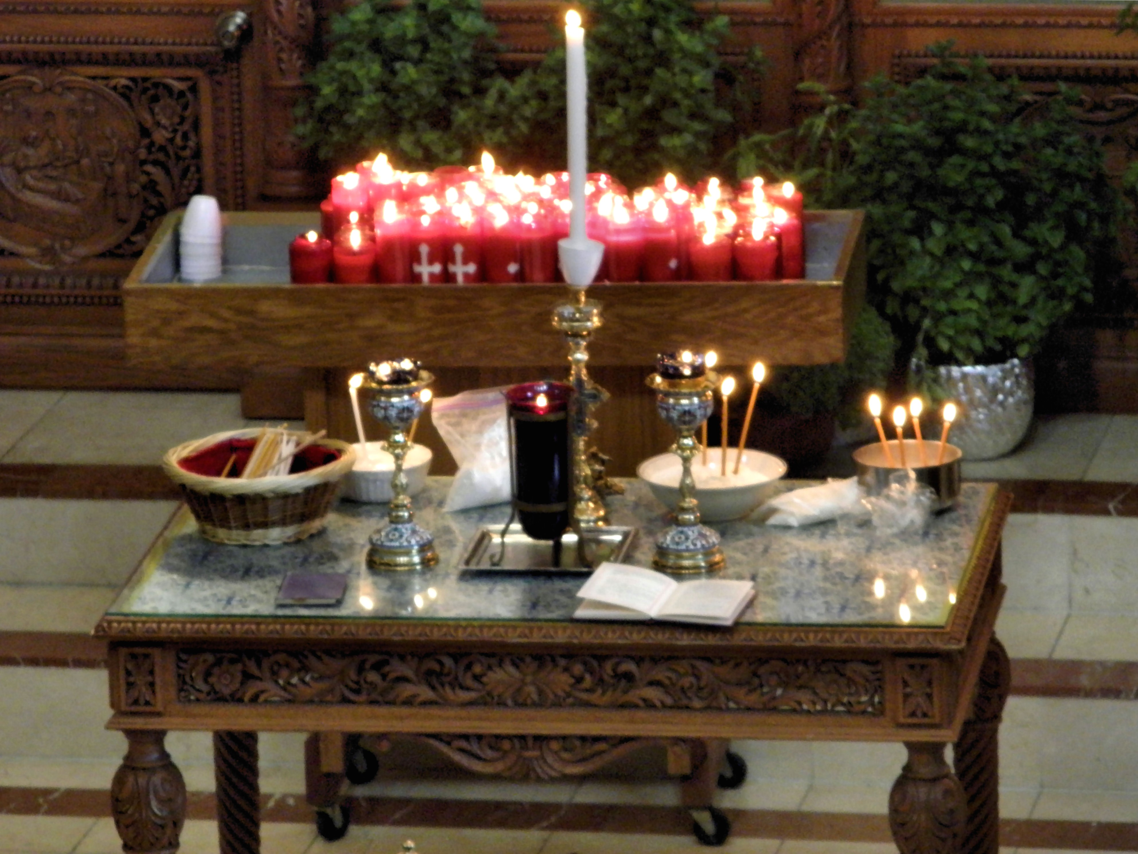 Service of the Sacrament of Holy Unction (Anointing of the Sick), during the Feast of the Dormition of Theotokos. The Holy Oil (Chrism) is blessed by the Holy Spirit, and is used for anointing the faithful for the healing of infirmities of the soul and body. Annunciation of the Virgin Mary Greek Orthodox Cathedral, Toronto, Ontario, Canada.